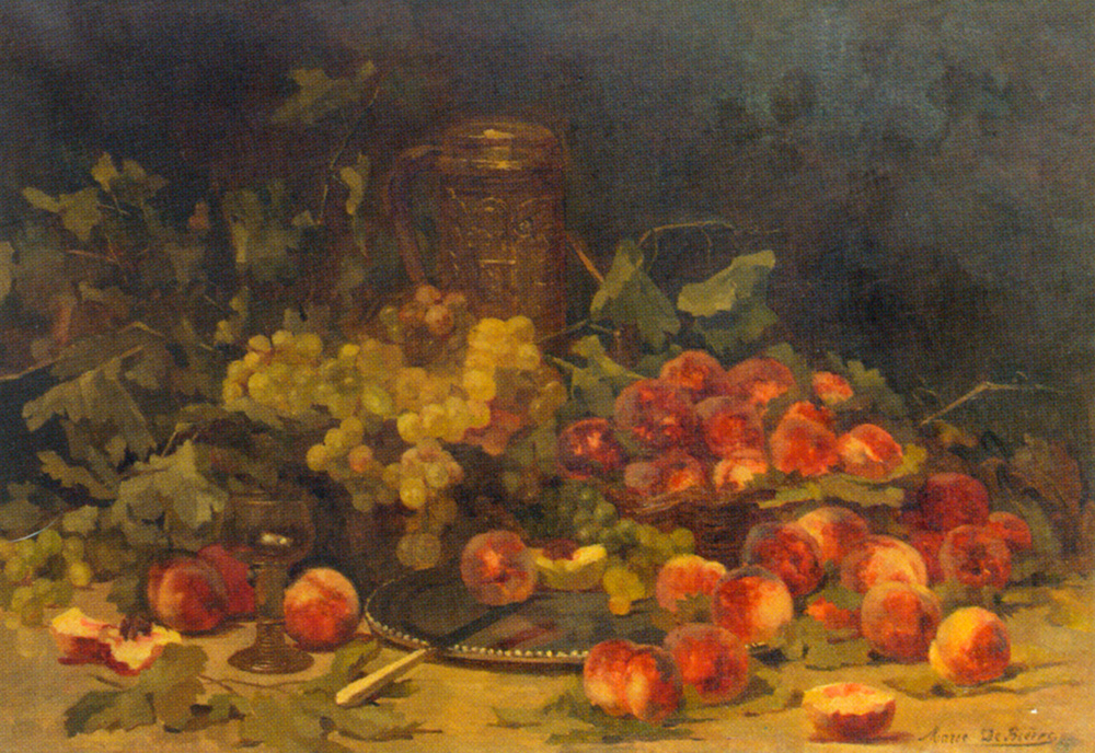 Private collection